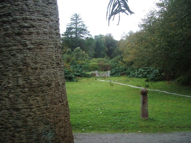 Araucaria araucana trunk Wonderful bark texture of this massive specimen in grounds of Lews Castle